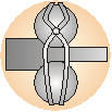 Logo of Department of Metalworking Technology, University of Miskolc, Hungary